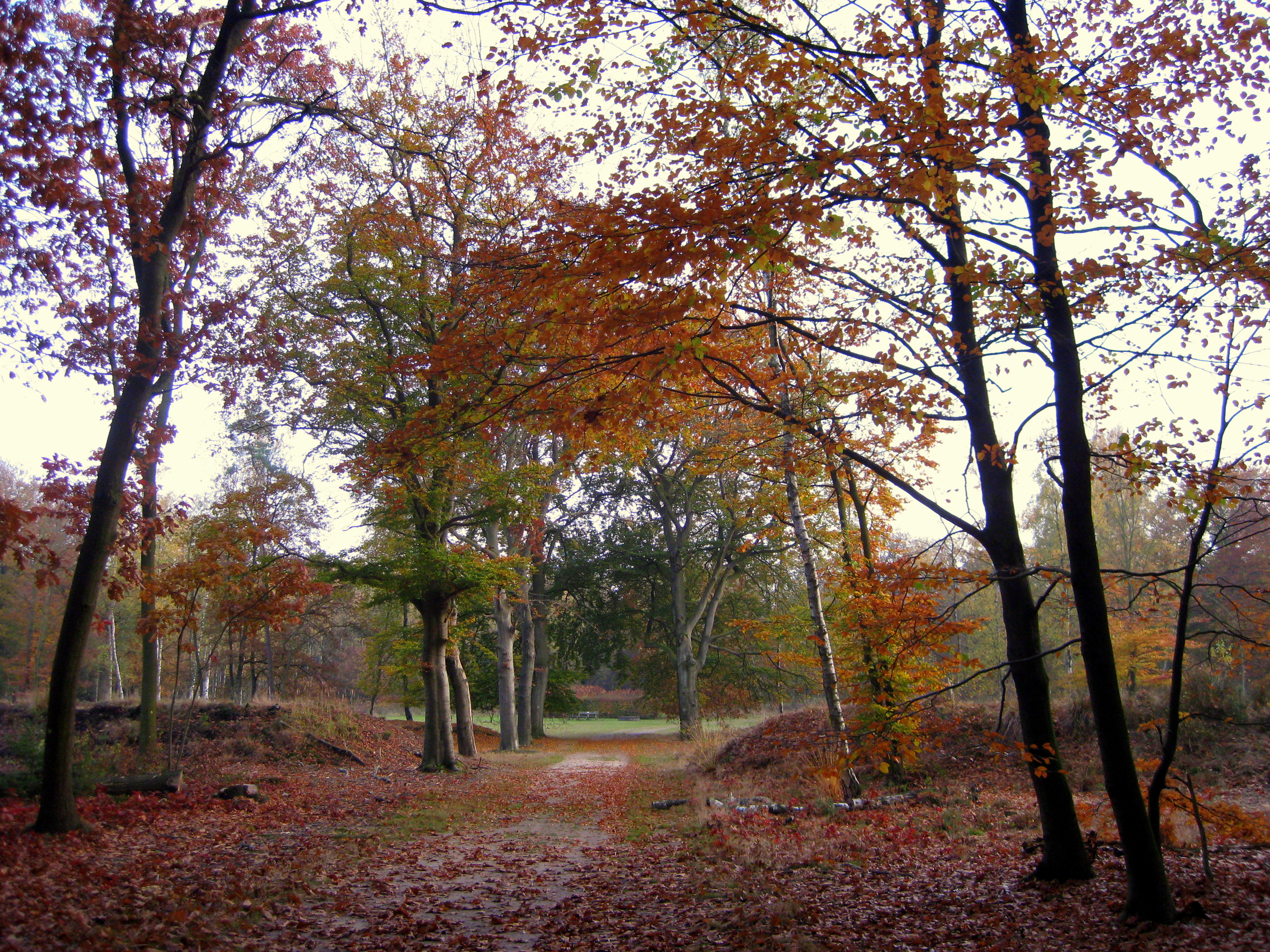 Wallenburg near Zeist, Netherlands